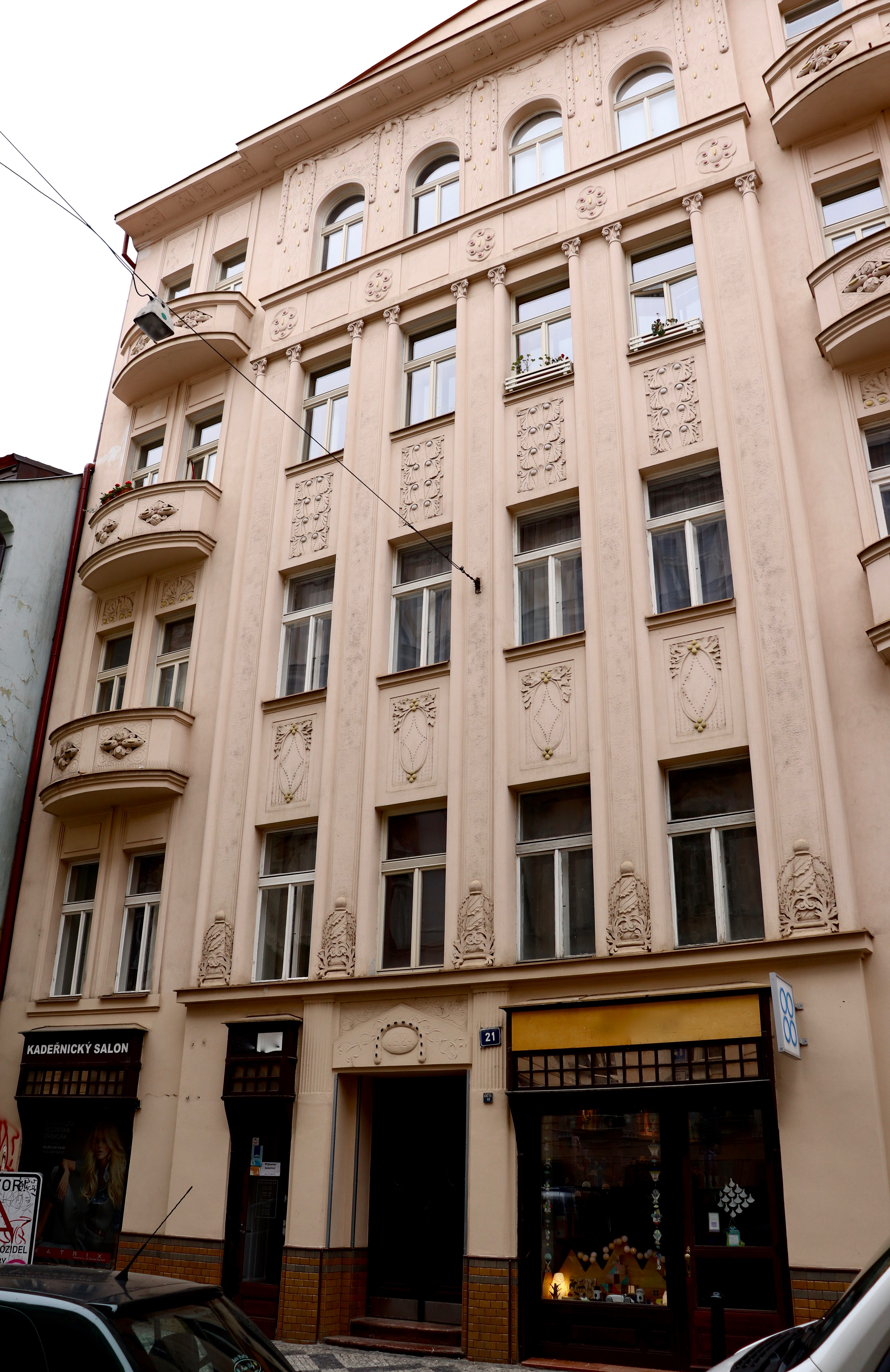 Pohled na dům